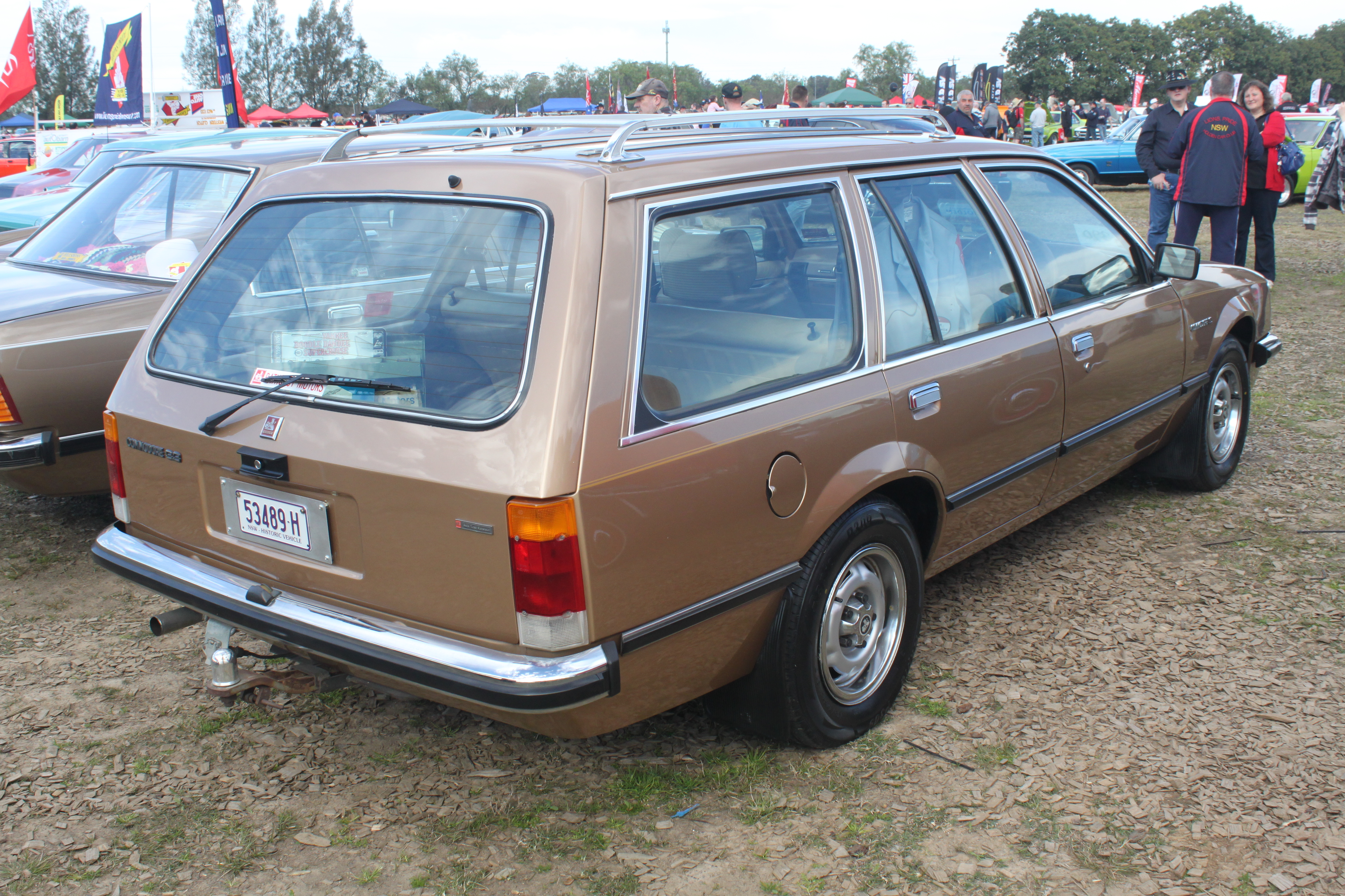 All Holden Day, Clarendon Showground, NSW August 2015